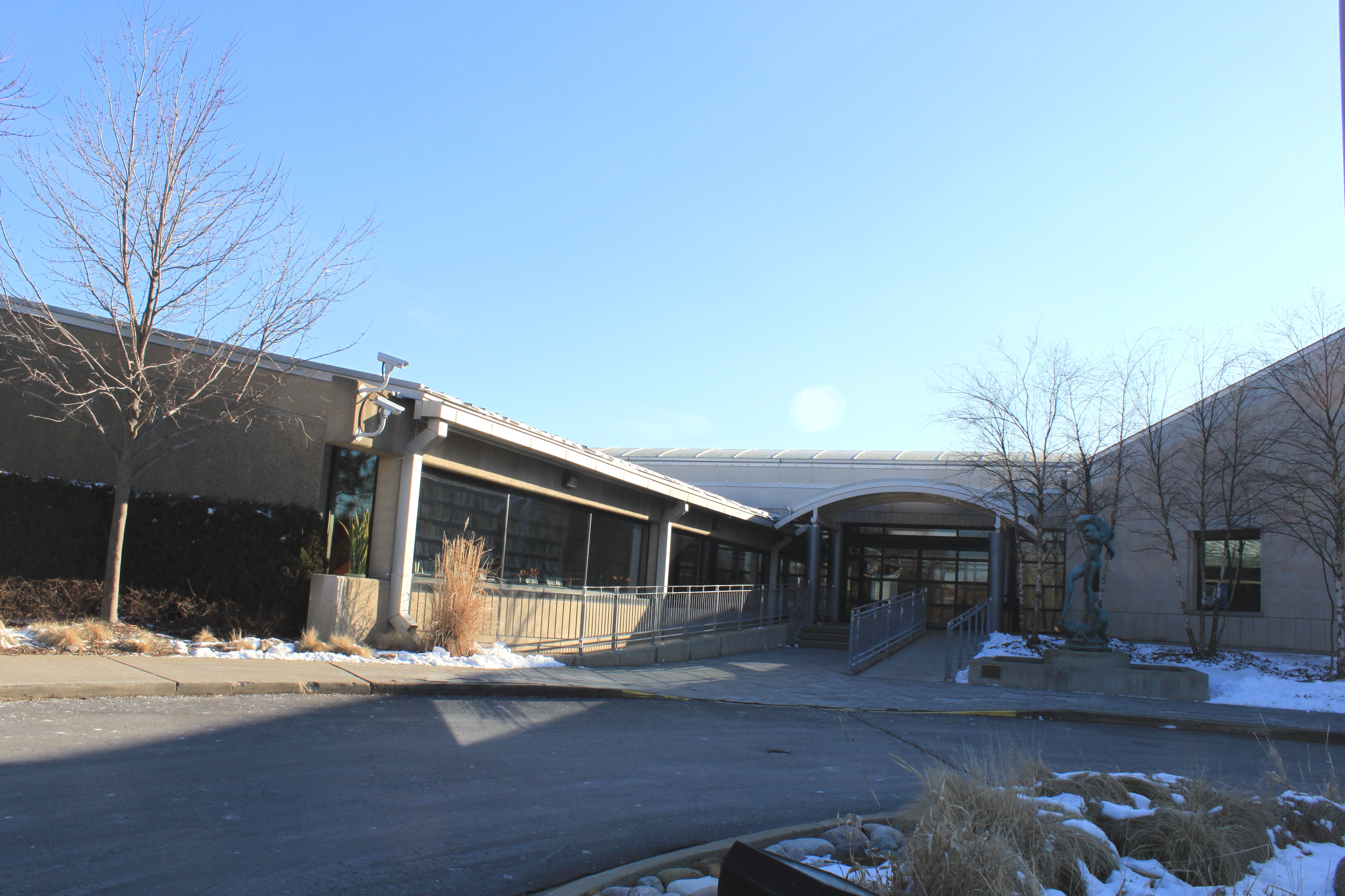 Entrance to the Farmington Community Library Main Library, 32737 Twelve Mile Road, Farmington Hills, Michigan.